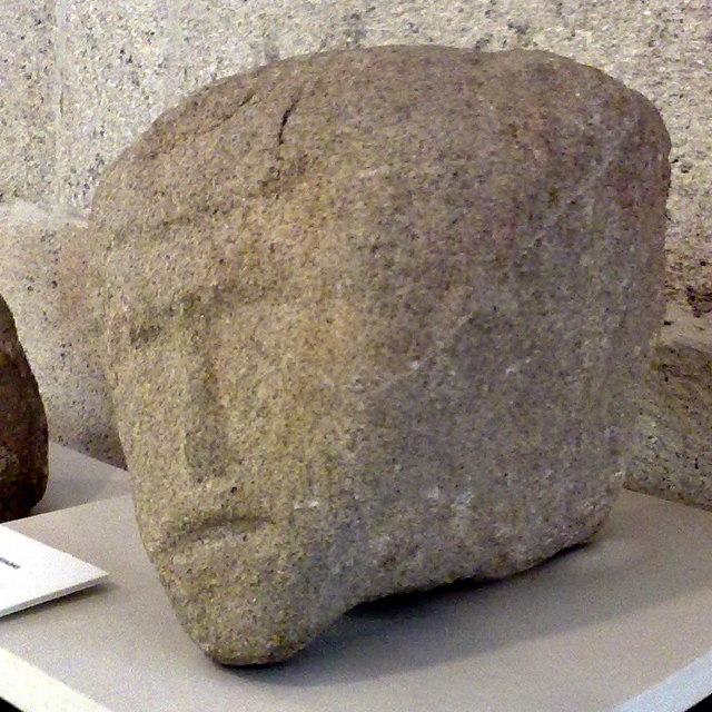 A Castro Culture severed head sculpture.